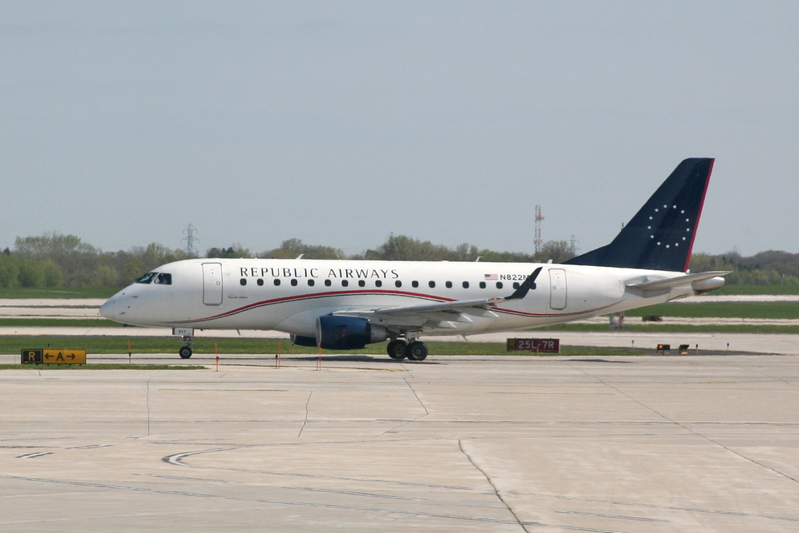 Republic Airlines Embraer 170 N822MD in Republic's house livery.